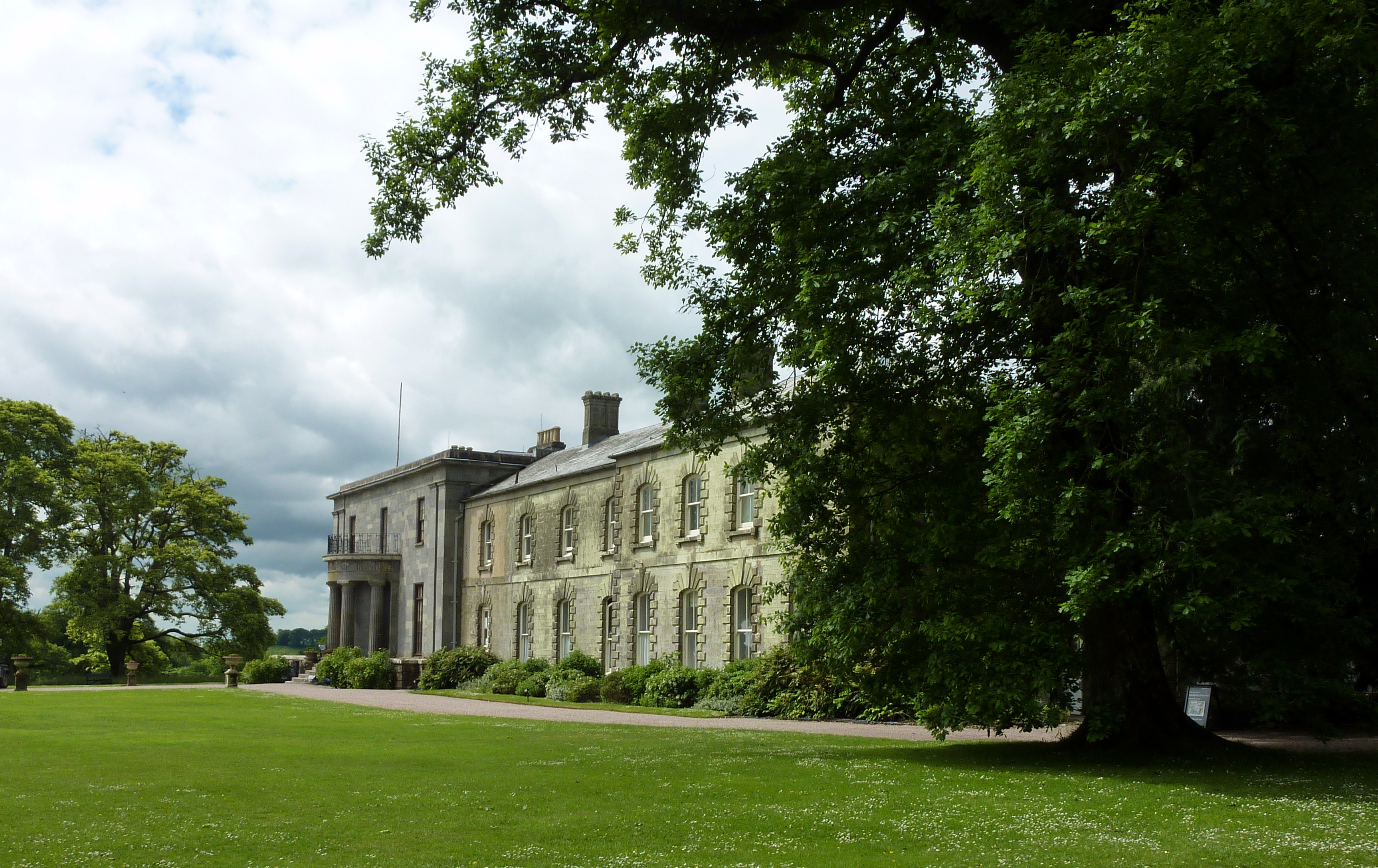 Arlington Court